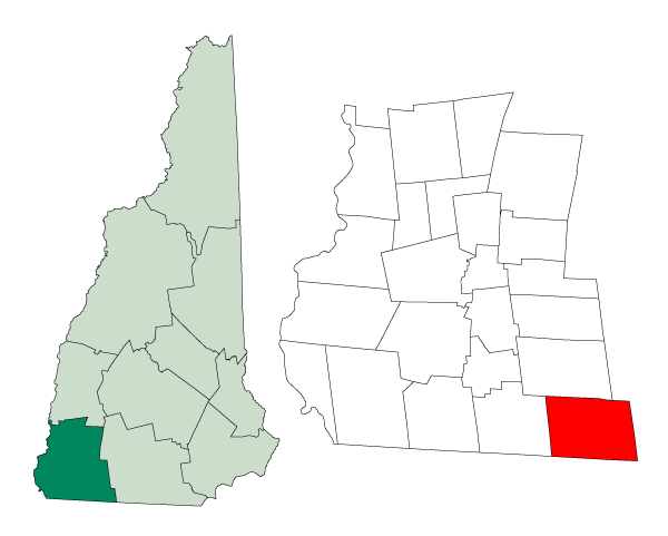 Map of a municipality in Cheshire County, New Hampshire